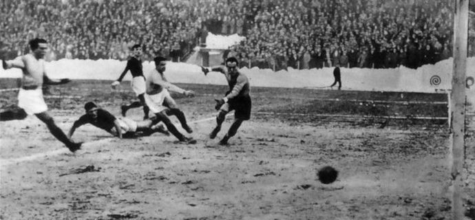 Turin (Italy), Filadelfia Stadium, December 15, 1935. F.B.C. Torino — Bologna A.G.C. 0-0, Matchday 11 of the Italian Championship 1935–36 Serie A: Torinos' midfielder Pietro Buscaglia fails to score, after being hindered by Bologna's goalkeeper Mario Gianni.